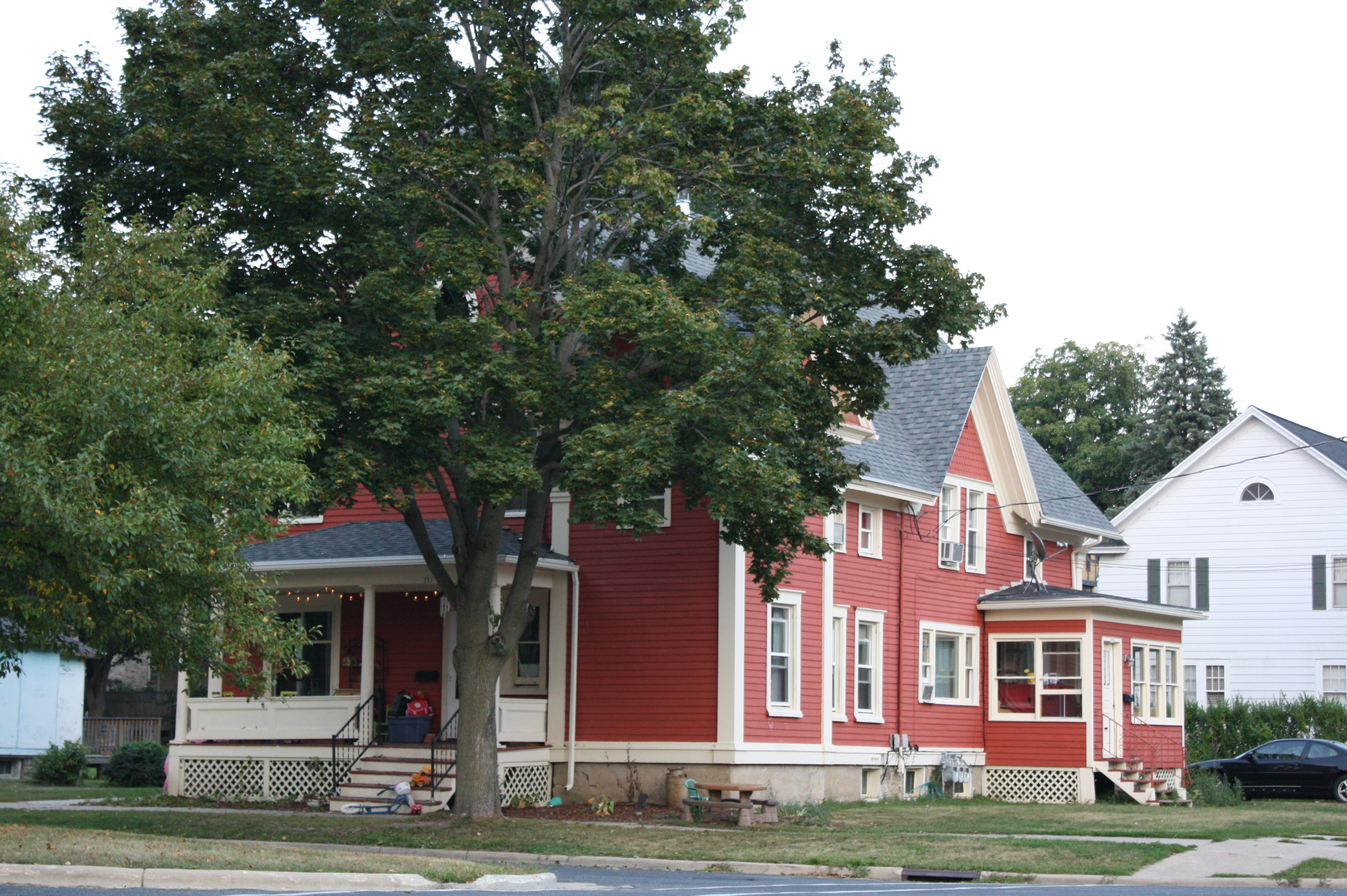 Looking at a house in the South Dickason Boulevard Residential Historic District in Columbus, Wisconsin, listed on the National Register of Historic Places.